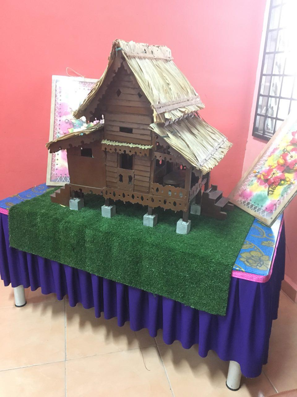 Rumah Warisan